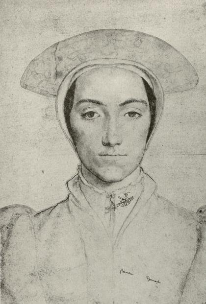 A portrait drawing of an unidentified woman by Hans Holbein the Younger.